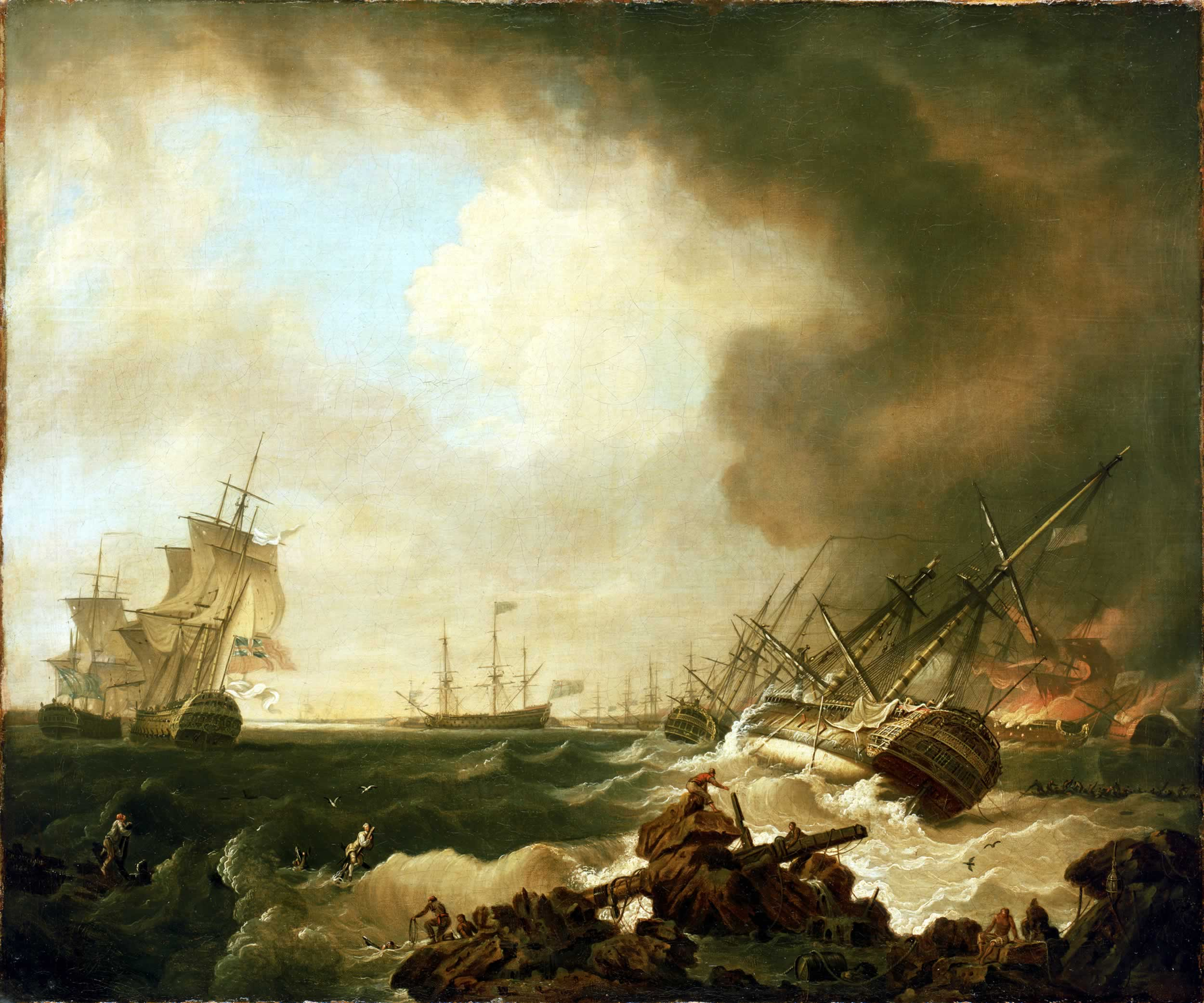 The French Soleil Royal and Héros are in flames on the right, in the foreground HMS Resolution lies wrecked on her starboard side. In front of her is HMS Essex, with other members of the British fleet at anchor in the background. The captured French Formidable is attended by a British frigate on the left of the picture.